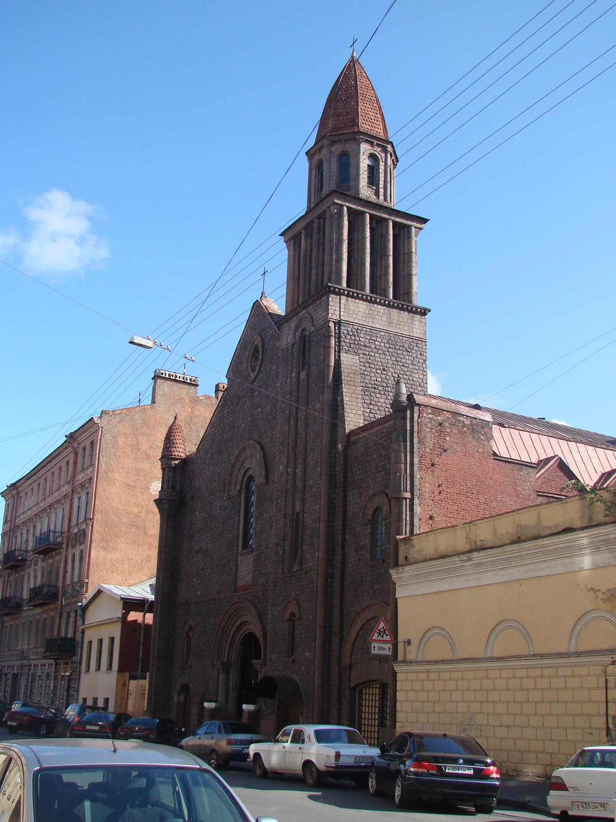 Our-Lady-of-Lourdes church (Saint Petersburg)